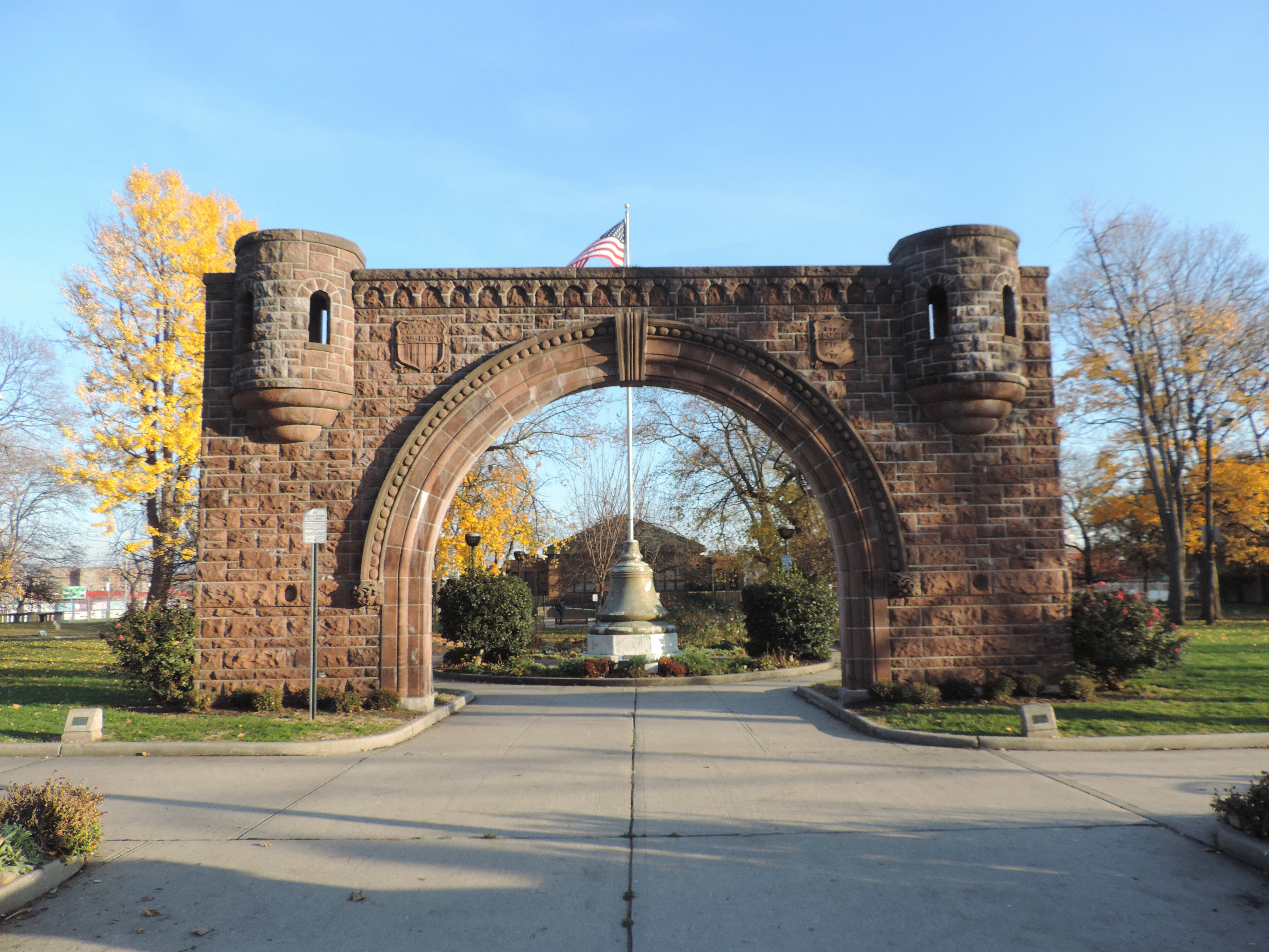 Looking east into Pershing Field Park entrance, late on a sunny day